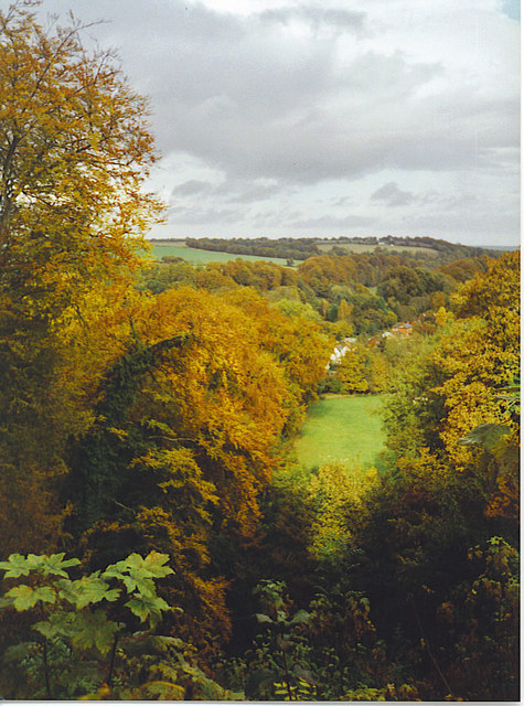 Looking Down the Zig-Zag Walk, Selborne Hanger. This is the area where Rev. Gilbert White researched and wrote his celebrated "Natural History of Selborne".